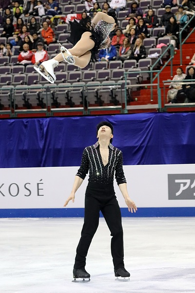 Yumeng GAO & Zhong XIE CHN – Bronze Medal